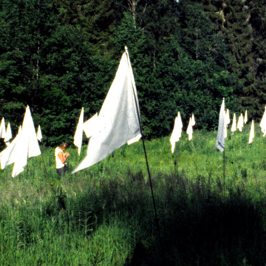 Casagrande & Rintala: 1000 White Flags, Koli National Park, Finland 2000